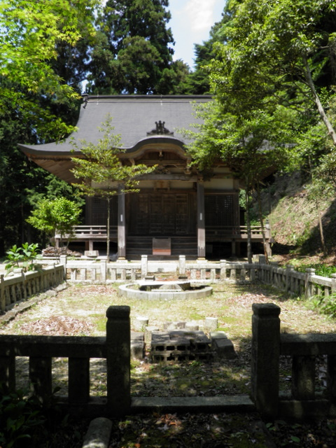 Houkakuji,Hondou